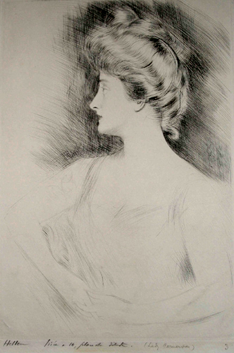 Almina Victoria Marie Alexandra Wombell (married to George Herbert, the 5th Earl of Carnarvon, excavator of Tutankhamon's tomb